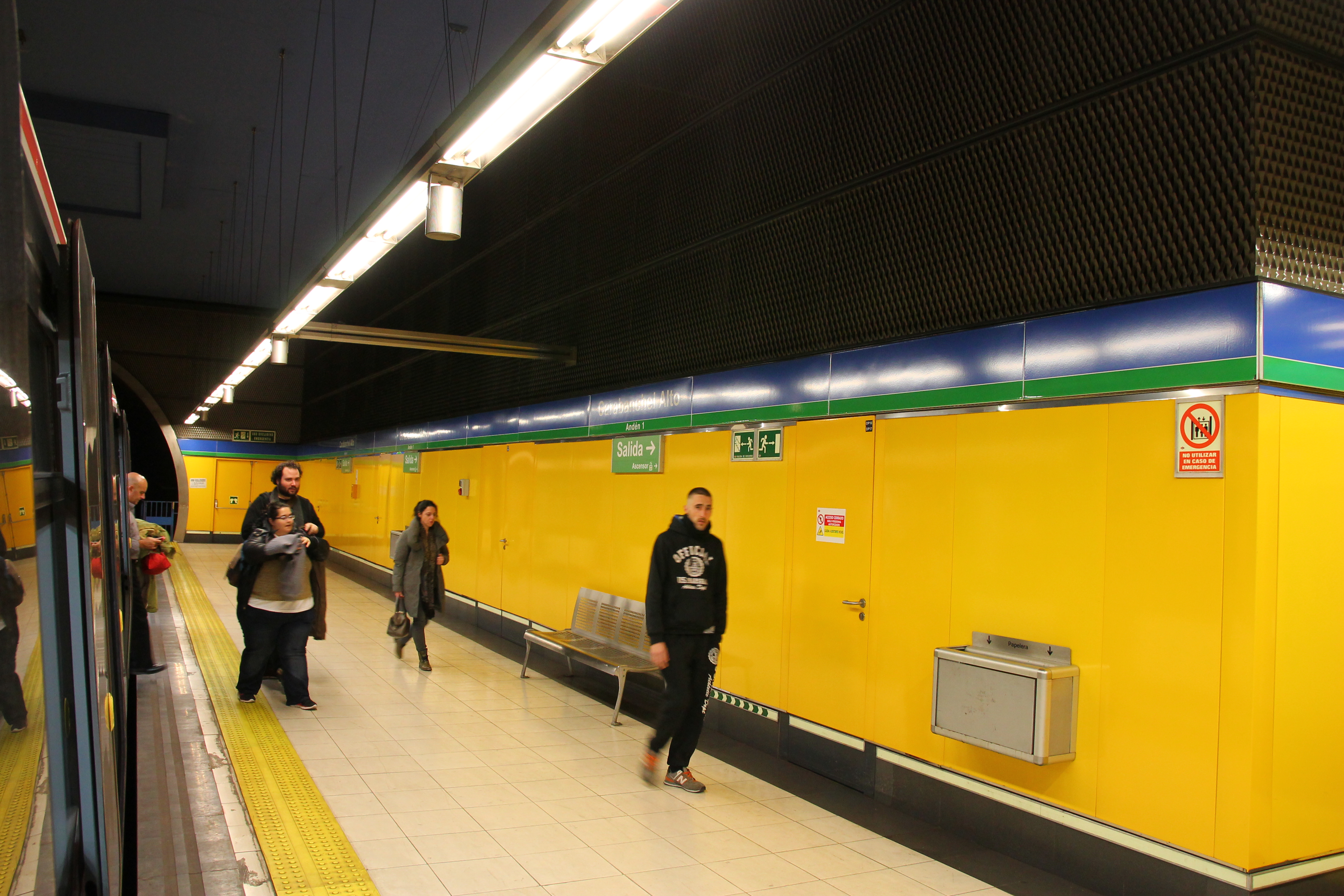 Estación de Carabanchel Alto